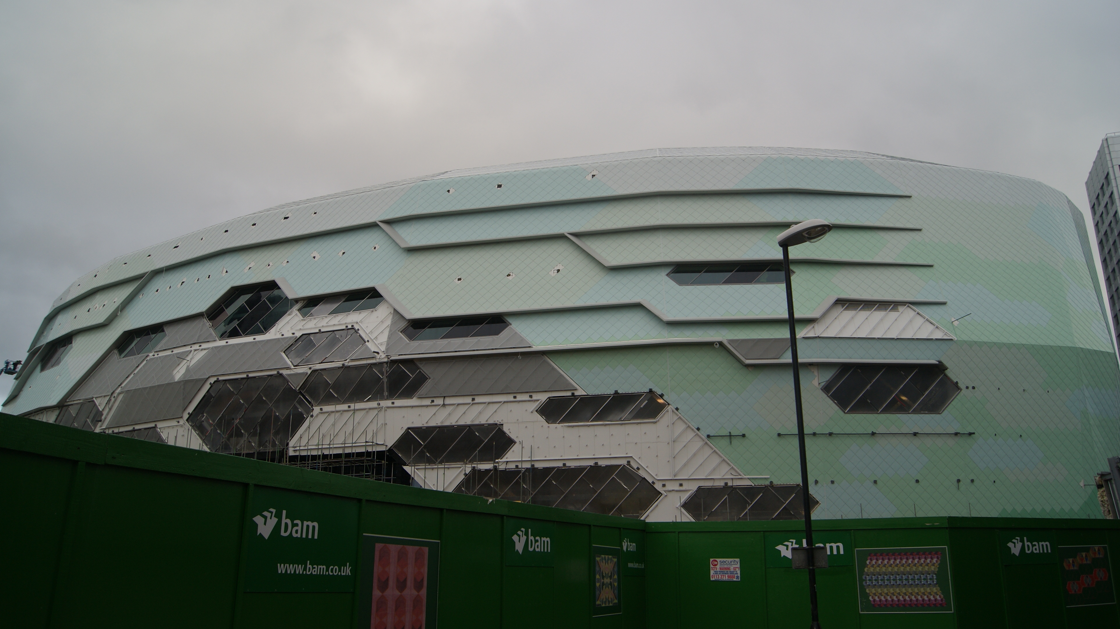 Construction of the Leeds Arena starting to near completion in Leeds West Yorkshire. Taken on the afternoon of Monday the 17th of December 2012.